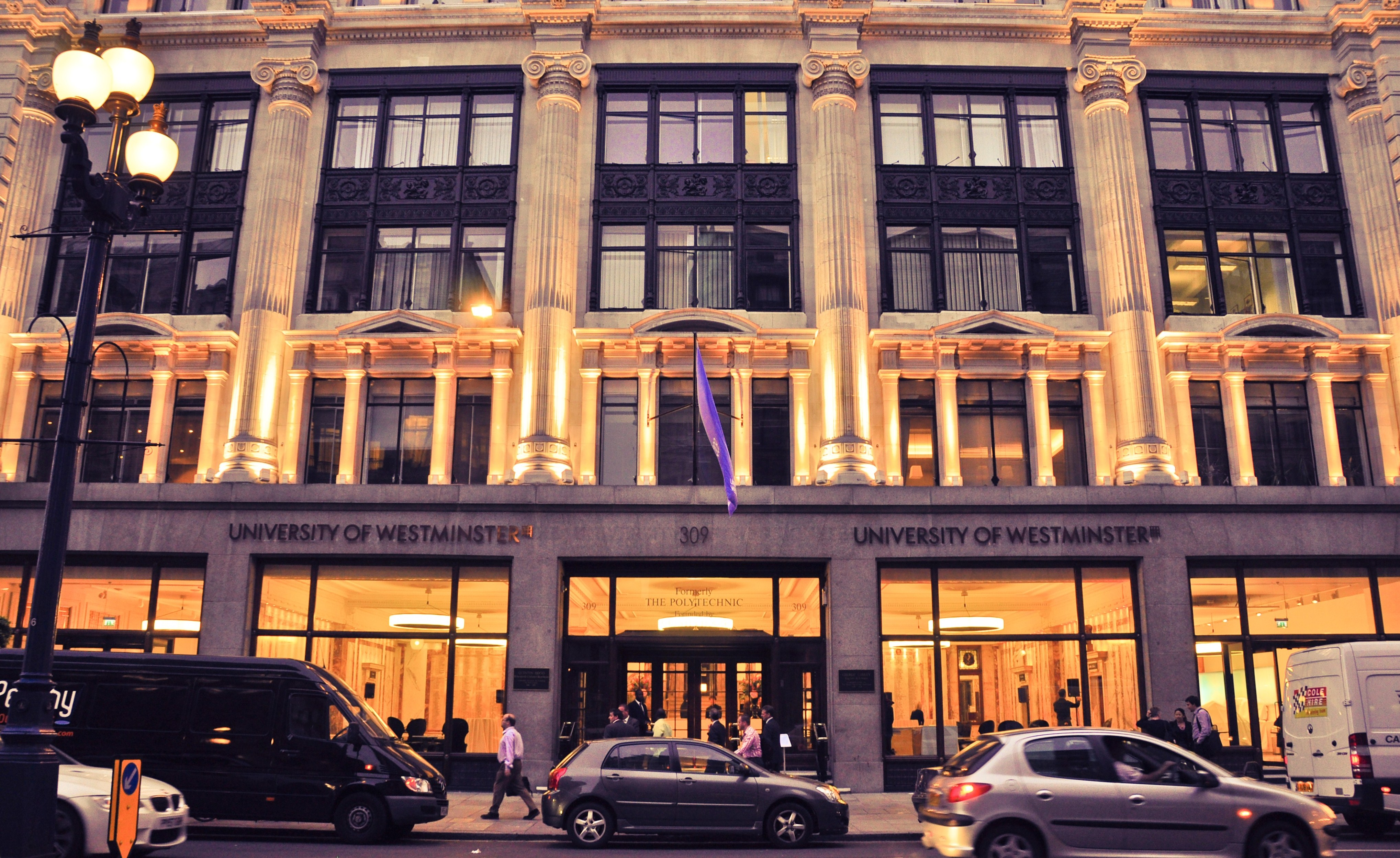 Entrance of the University of Westminster in Regent Street, London.